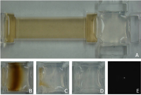 Humic acids purified by SCODA process.